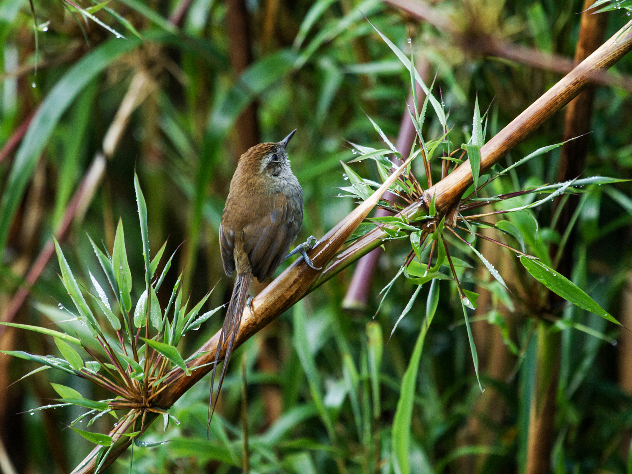 Puna Thistletail from Abra Malaga, Cusco, Peru.